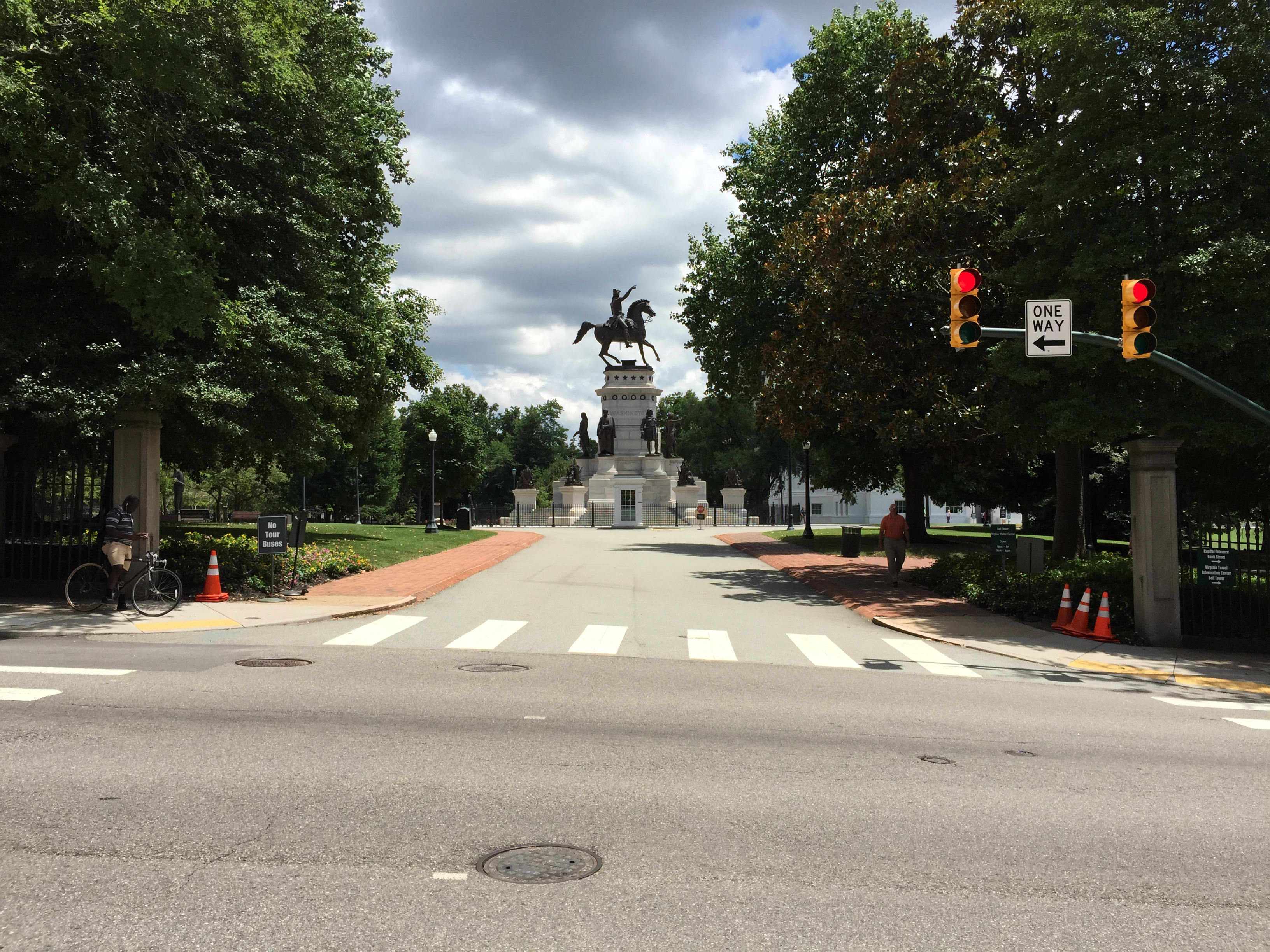 View east along Virginia State Route 318 (Grace Street) at Ninth Street in Richmond, Virginia